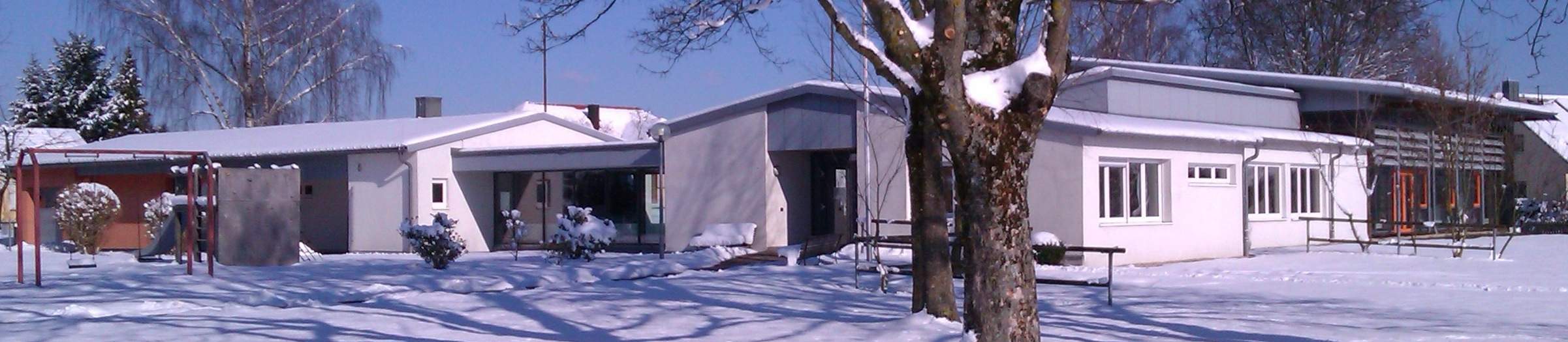 Fire station (left) and social centre with kindergarten (right) in Unterkirneck, Lorch, Baden-Württemberg, Germany